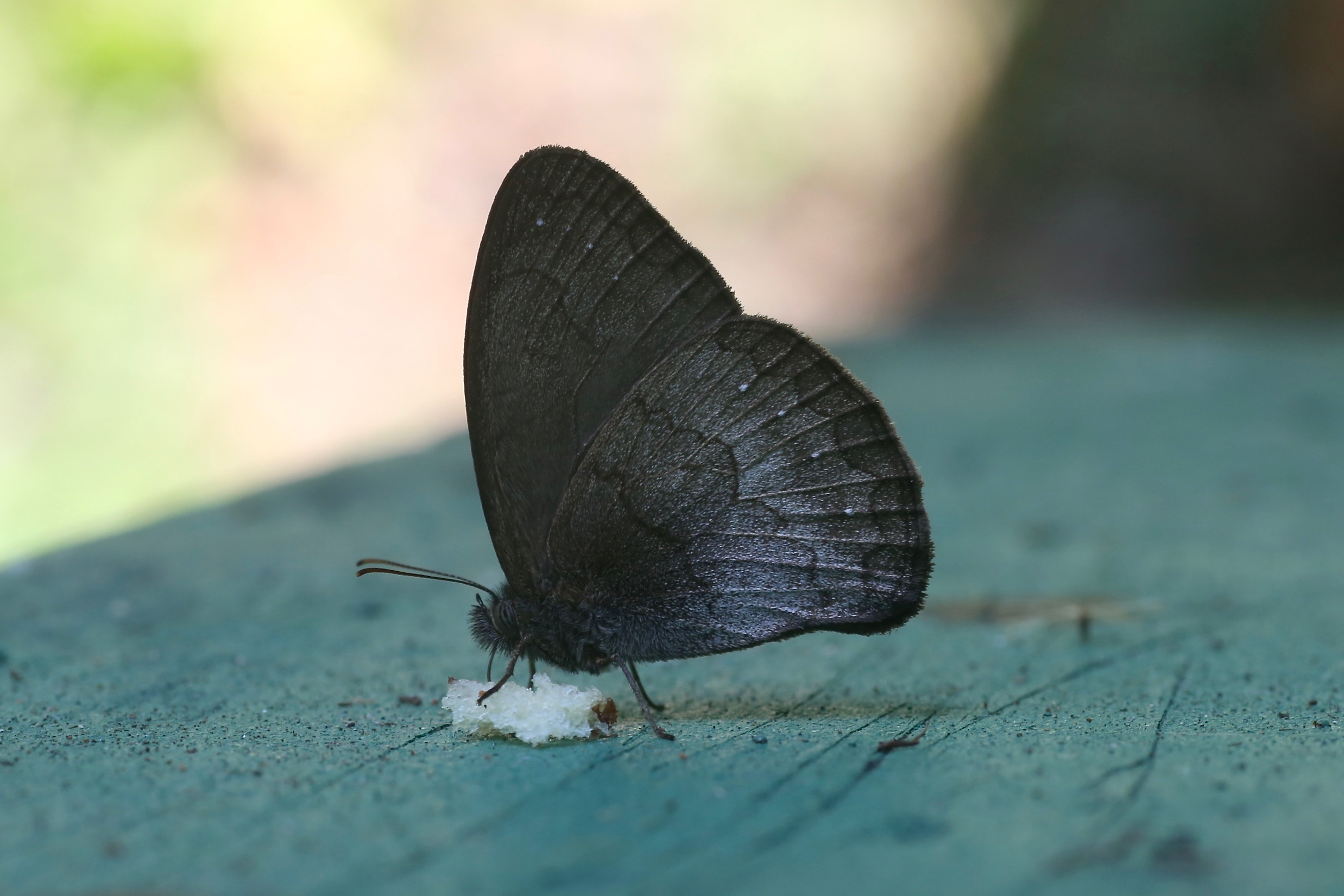 Ecuador, Pichincha Province, Mindo, cloud forest.